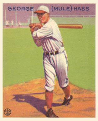 1933 Goudey baseball card of George "Mule" Haas of the Chicago White Sox #219. PD-not-renewed.